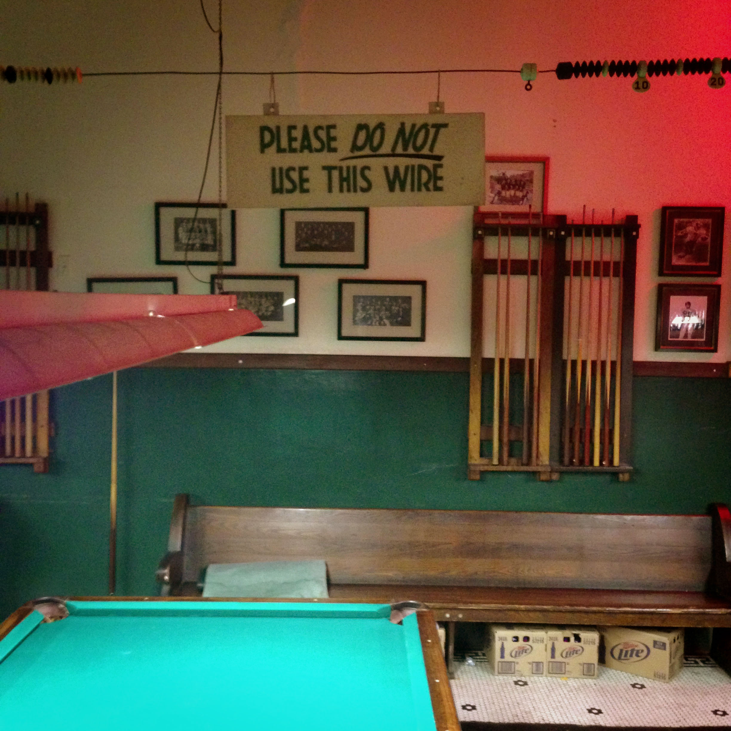 Booches bar, restaurant and pool hall in downtown Columbia, Missouri